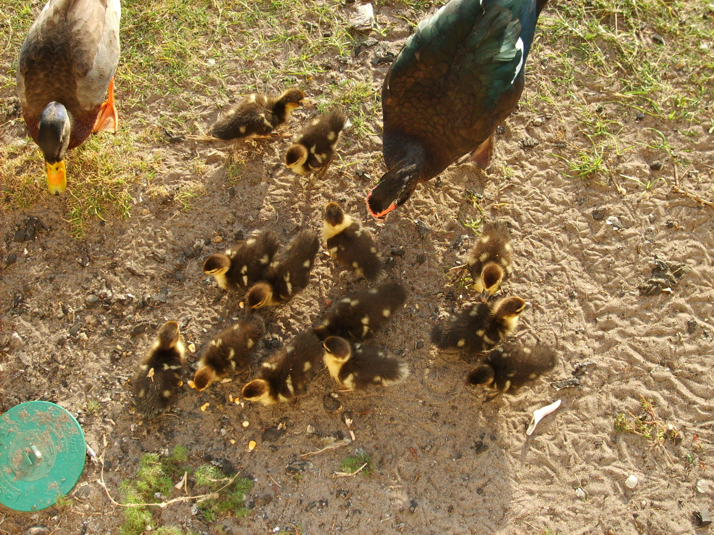 Author: M.E. Johnson Additional Note: The mother duck (Muscovy) is present and there happens to be a male mallard nearby.